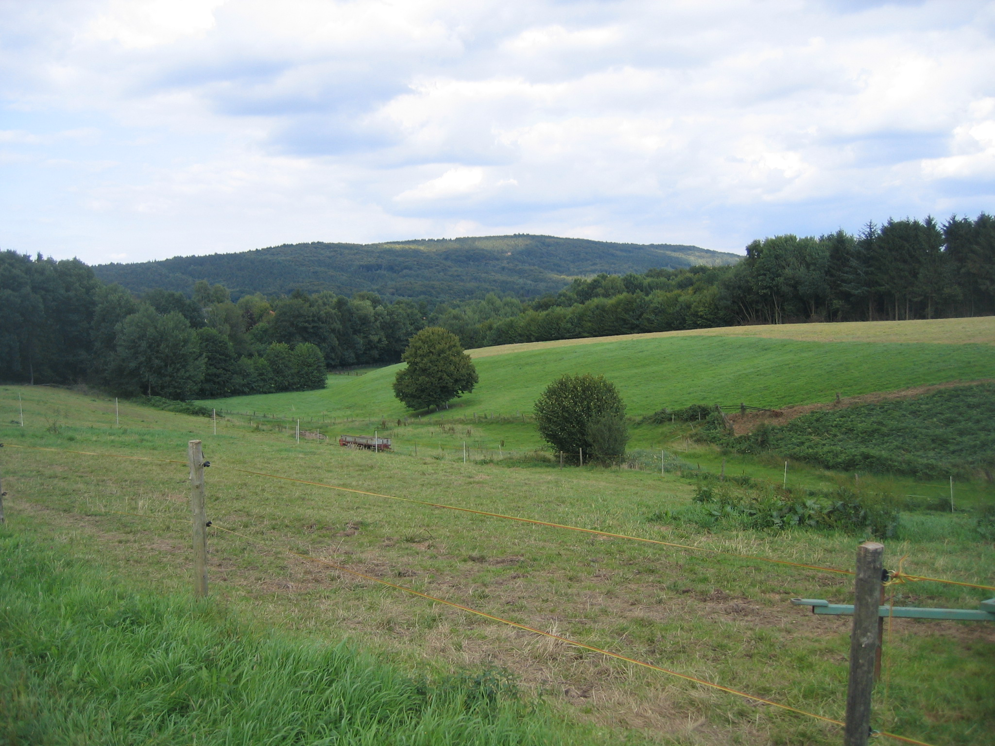 Picture shows a so called Siek in town of Rödinghausen-Schwenningdorf, Germany.